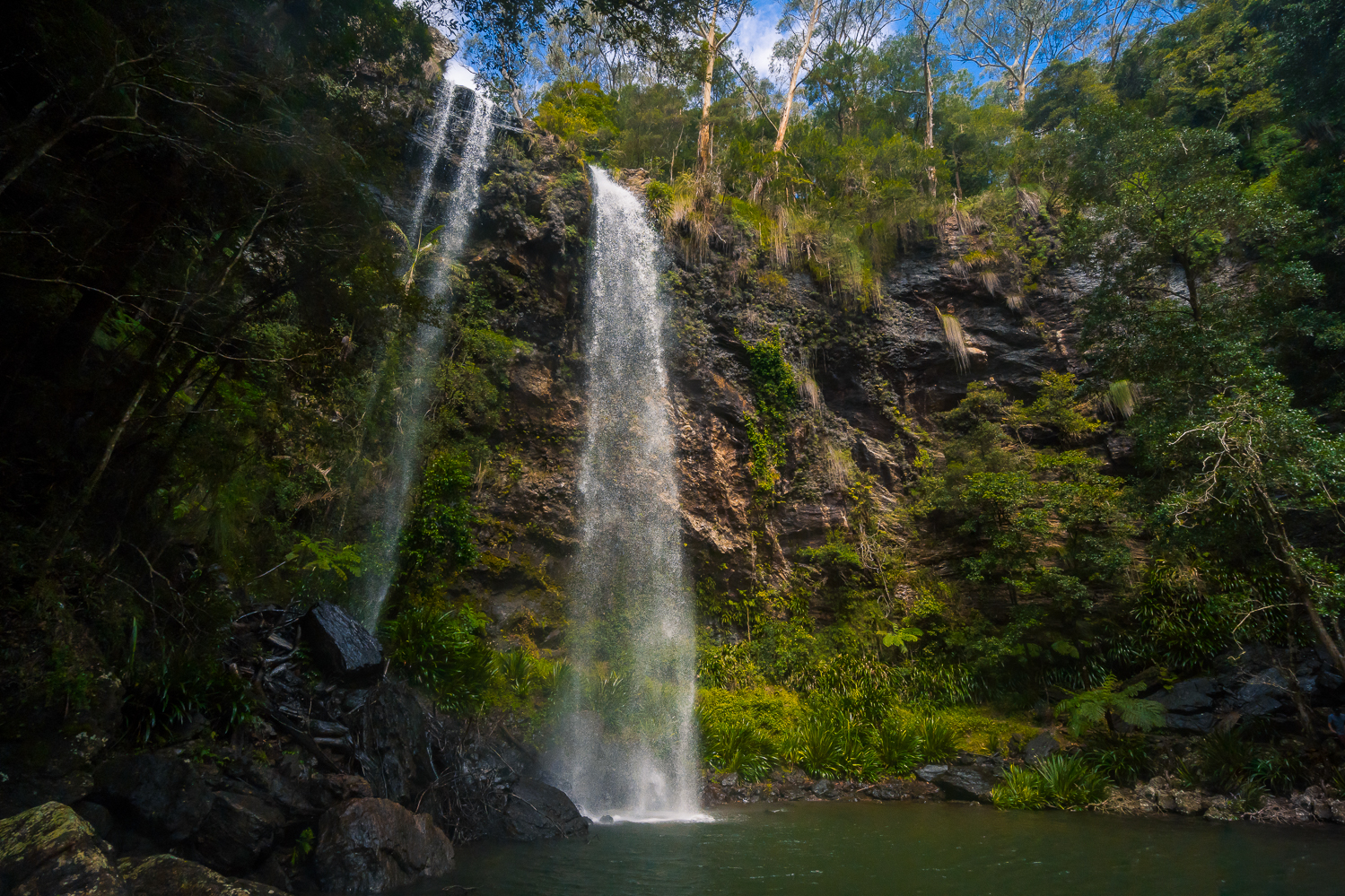 Located in the heart of Springbrook, the Twin Falls circuit is an iconic attraction that lures many to see it.